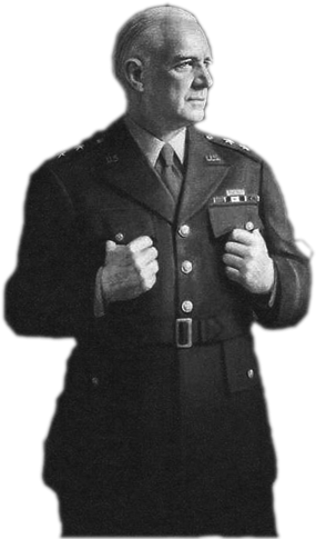 William J. Donovan, founder of the OSS.